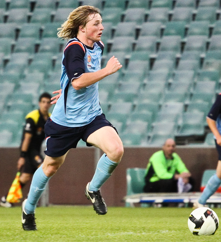 Rhyan Grant playing for the Sydney FC Youth team in a Friendly against Tasmania Youth.